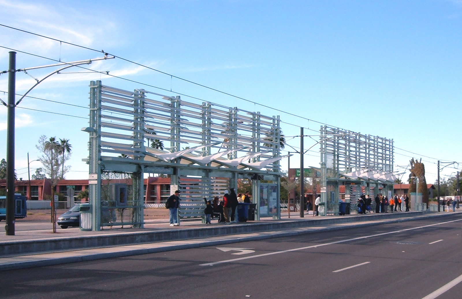 Photograph of the Dorsey Lane (or Apache at Dorsey Lane) Station of METRO Light Rail that serves the Phoenix area, Arizona, USA. This photograph was taken during the light rail's grand opening celebration on December 27, 2008.